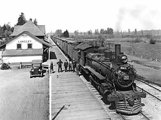 Canadian National Railways locomotive #1047 at the Langley, British Columbia Railway Station